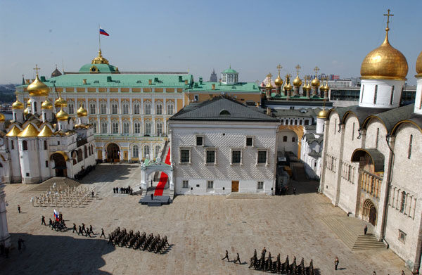 Moscow, the Kremlin. Cathedral Square